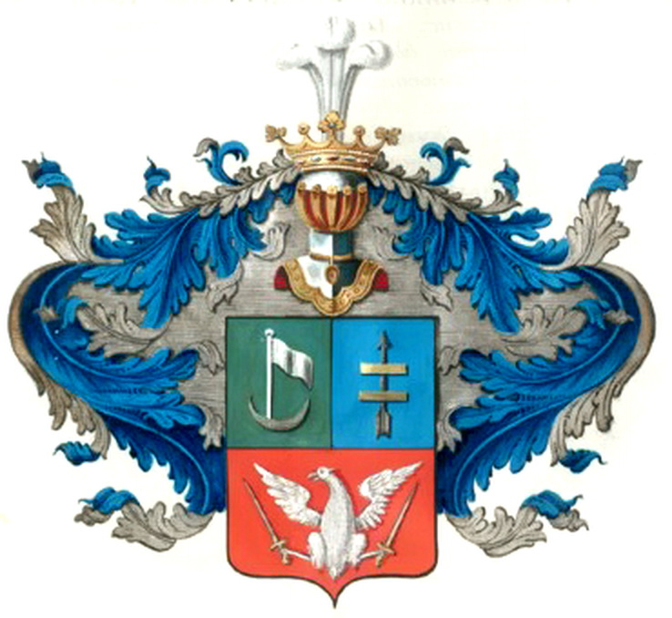 Coat of Arms of family Kushelew